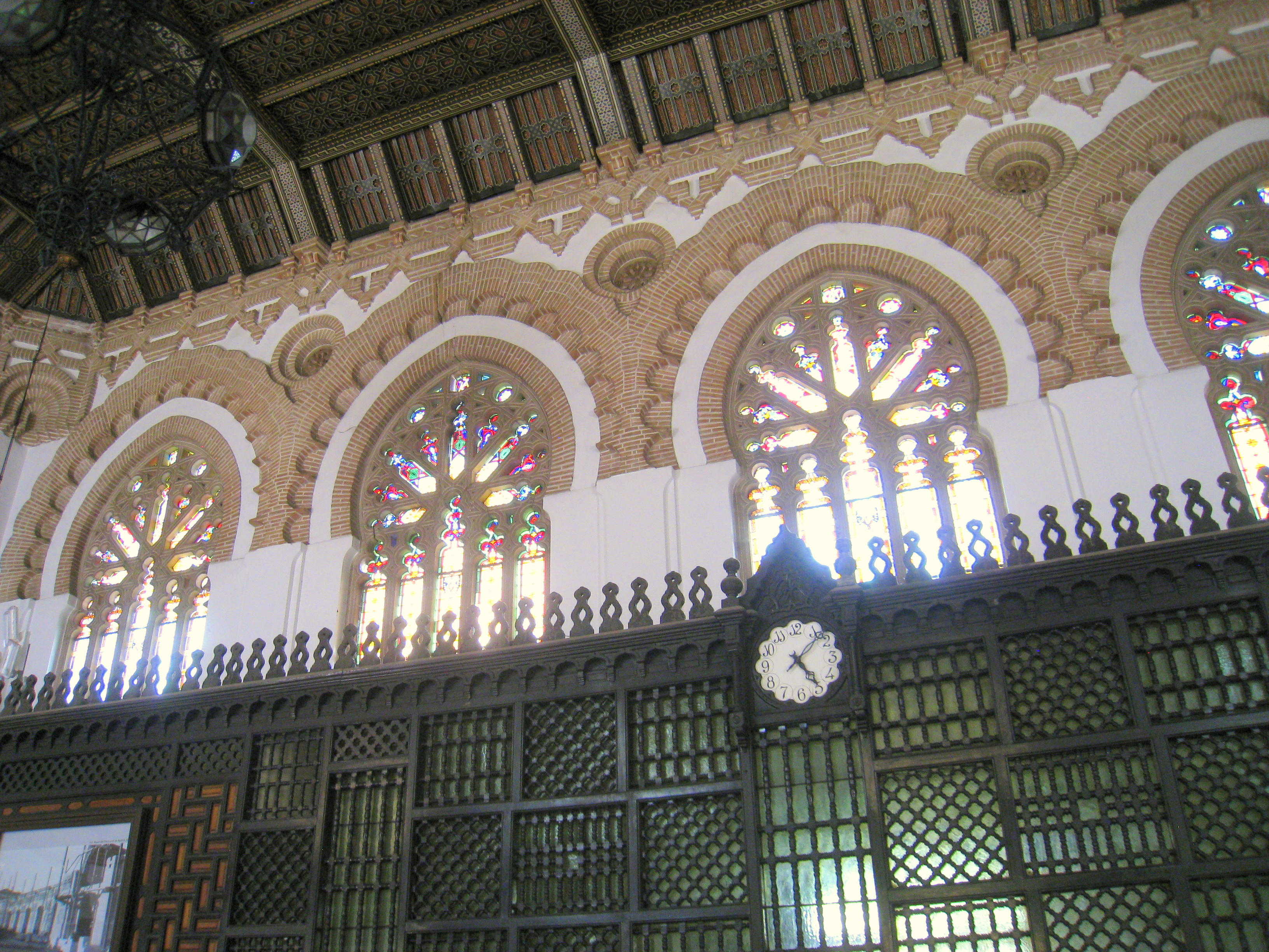 Train station in Toledo, Spain - interior detail.